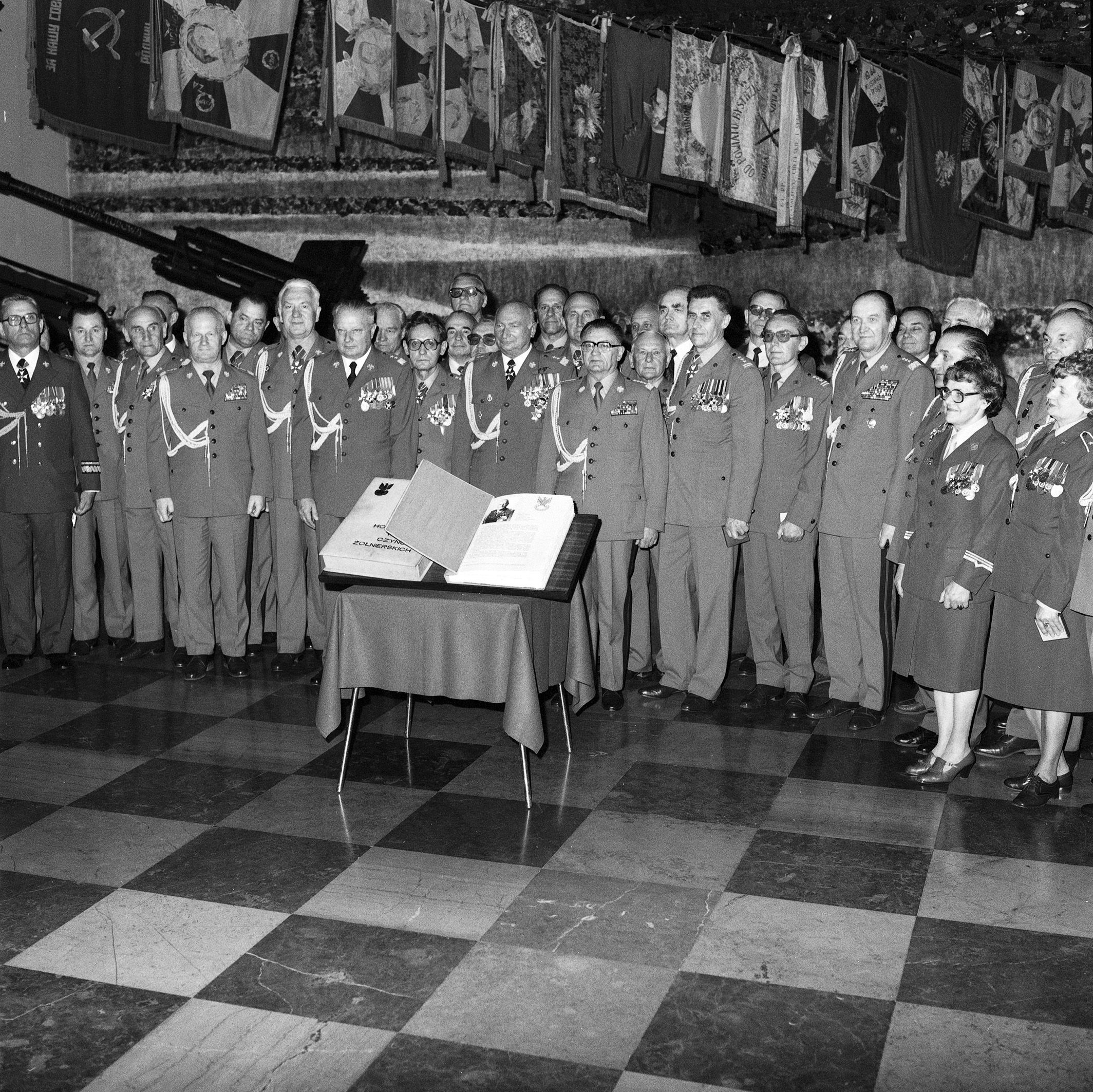 40th Anniversary of Victory over Nazi Germany, 1985.